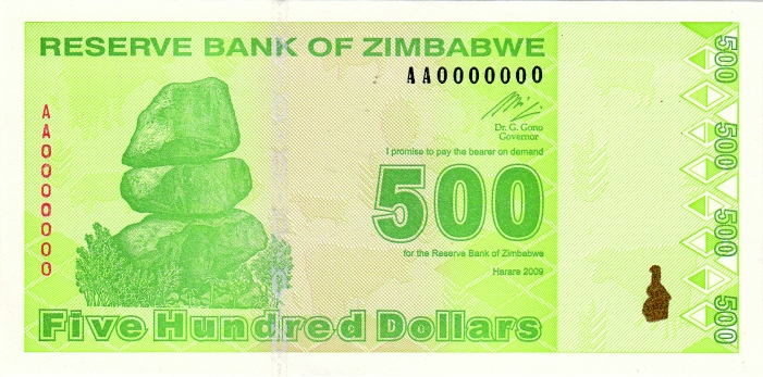 This is an image of a banknote of Zimbabwe.